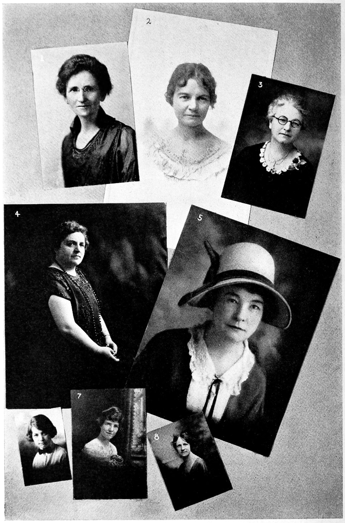 Women of the West; a series of biographical sketches of living eminent women in the eleven western states of the United States of America by Binheim, Max; Elvin, Charles A Publication date 1928 Topics Women Publisher Los Angeles, Calif., Publishers Press Collection uconn_libraries; americana Digitizing sponsor LYRASIS Members and Sloan Foundation Contributor University of Connecticut Libraries Language English 223 p. bports. c24 cm. Bookplateleaf 0003 Call number F595 .B59 Camera Canon EOS 5D Mark II Identifier womenofwestserie00binh Identifier-ark ark:/13960/t22c0sd8h Lccn 28021005 Ocr ABBYY FineReader 8.0 Page-progression lr Pages 284 Possible copyright status Copyright either not claimed or not renewed. Item is in the public domain. Ppi 500 Scandate 20130807152456 Scanner Scanningcenter boston Full catalog record MARCXML